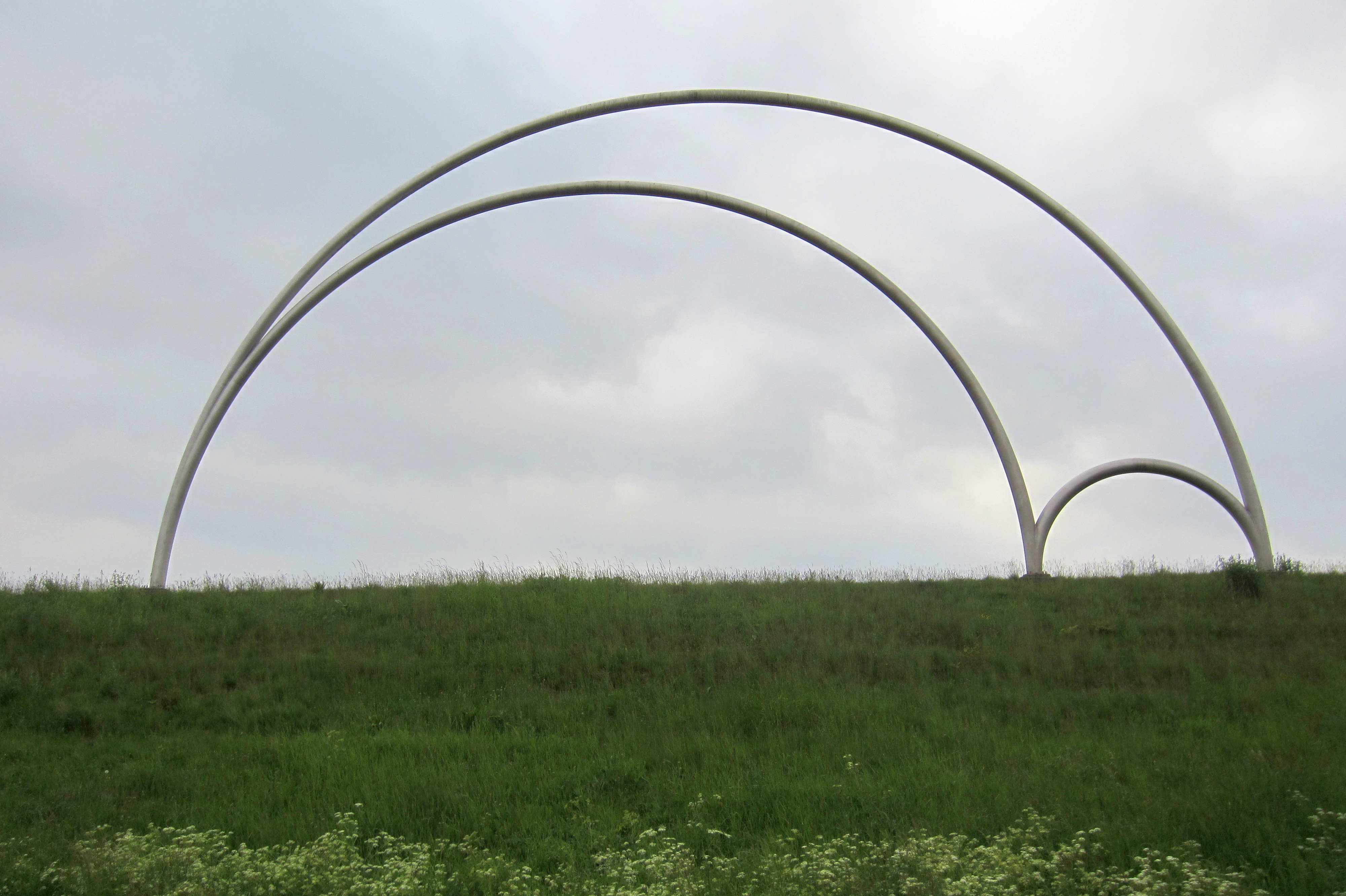 Arbelos sculpture in Kaatsheuvel, Netherlands. Artist: Ruud van de Ven, Best. Diameters of the three arcs (semicircles): ca. 24.2 m, 19.3 m and 4.9 m. Diameter of the profiles: ca. 32 cm. Original info board text (Dutch): see below.